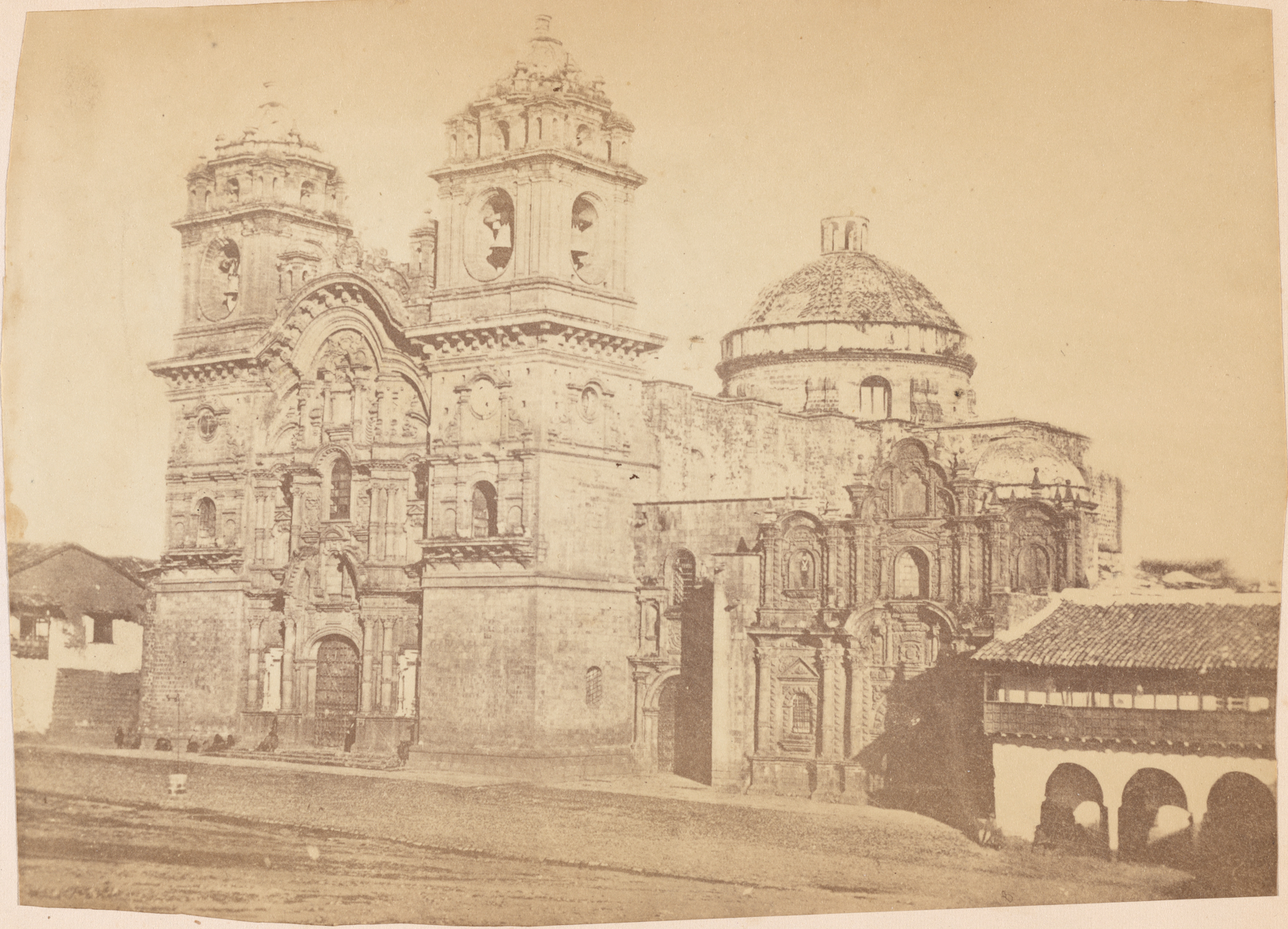 Photo of 1868 of the Church of la Compañía de Jesús of Cusco.